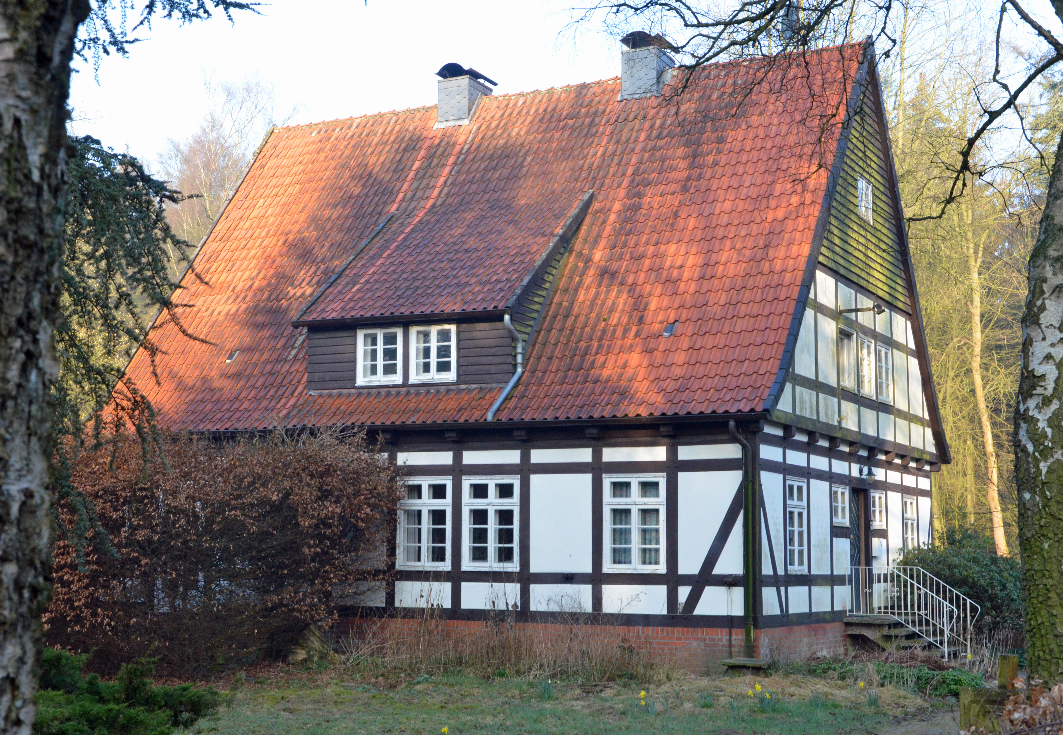 Cultural heritage Monument in Syke